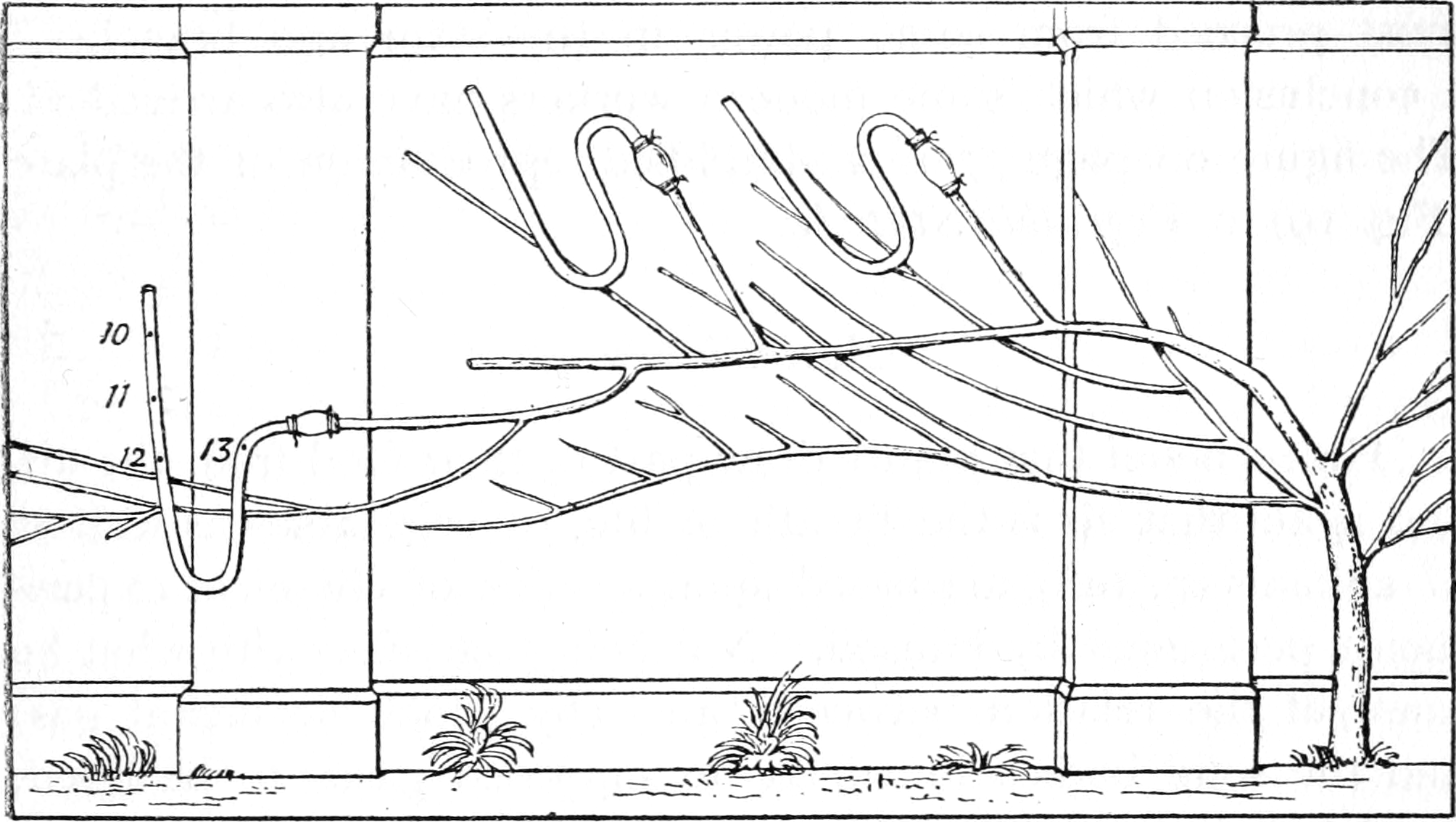 The figure on page 77 of Makers of British botany (1913), which is a reproduction of a figure from Stephen Hales' Vegetable Staticks (1727).